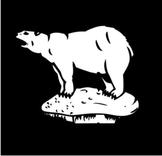 Polar Bear divisional flash of the British 49th (West Riding) Infantry Division., created using CorelDraw 12